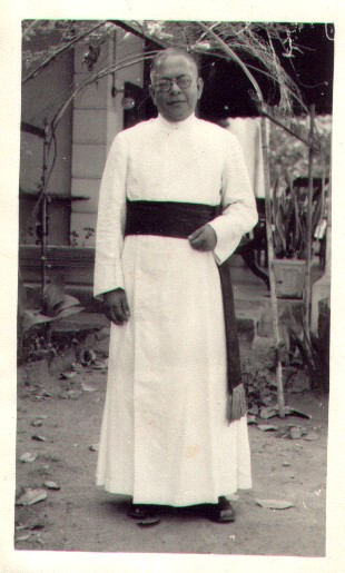 Reverend Canon Ivan Corea, Rural Dean of Colombo of the Church of Sri Lanka